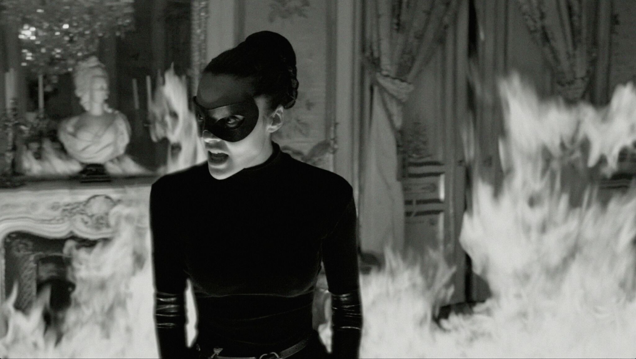 Ana Rujas furiously chants while surrounded by a FX wall of fire on the set of Alice Waddington-directed Disco Inferno